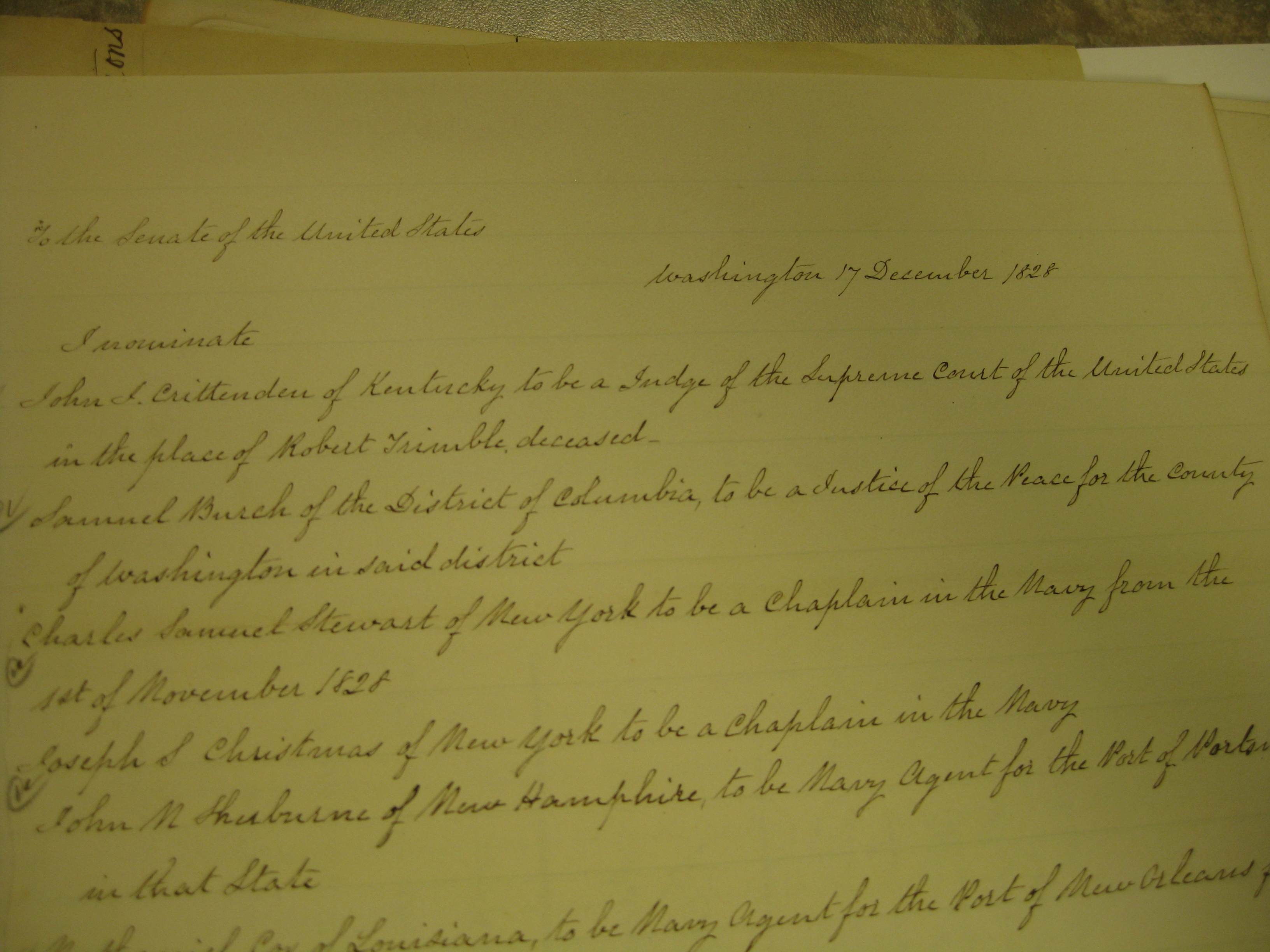 John Quincy Adams's nomination of John J. Crittenden to serve on the U.S. Supreme Court. Courtesy of the National Archives and Records Administration.